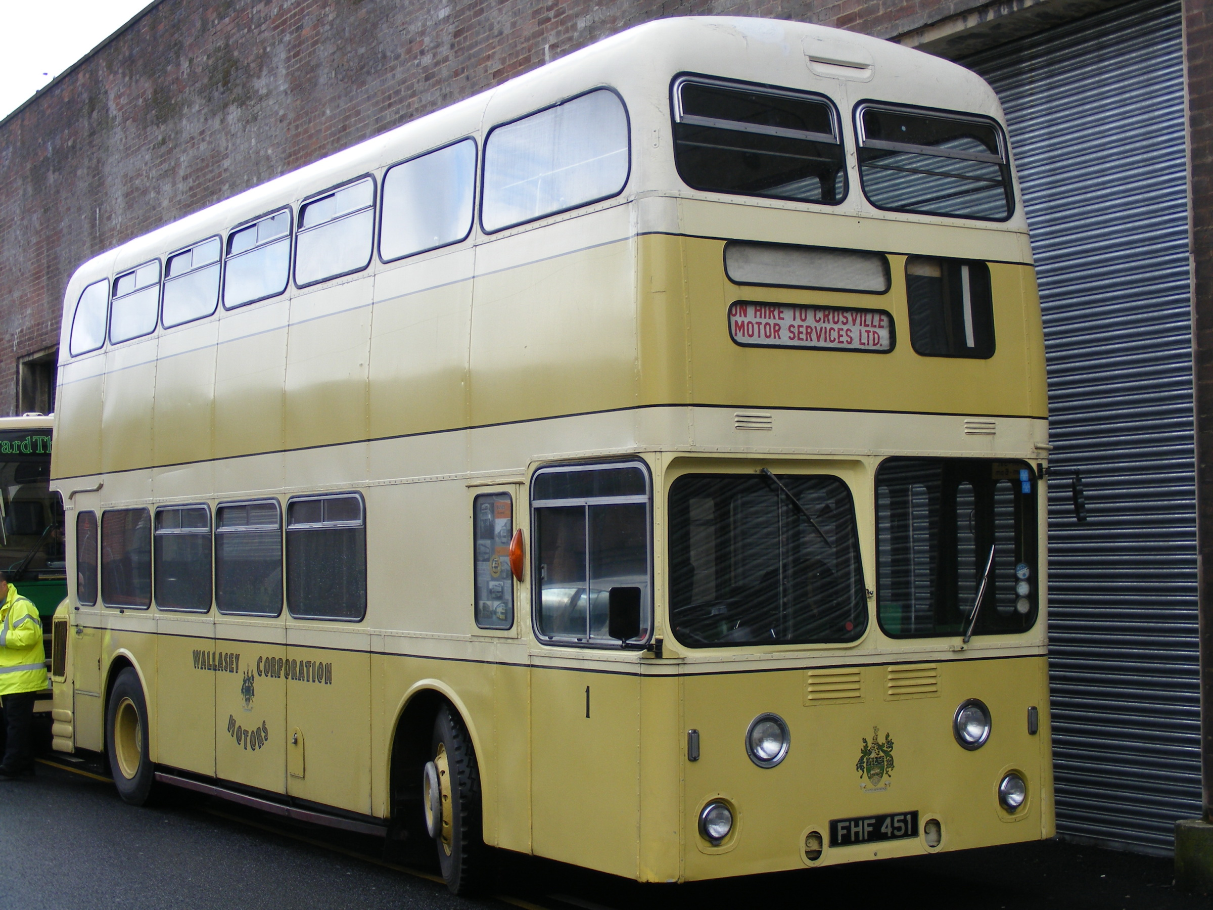 Wallasey Corporation 1 FHF 451 Leyland Atlantean PDR1/1 / Metro-Cammell seen at the St Helens Transport Musueum